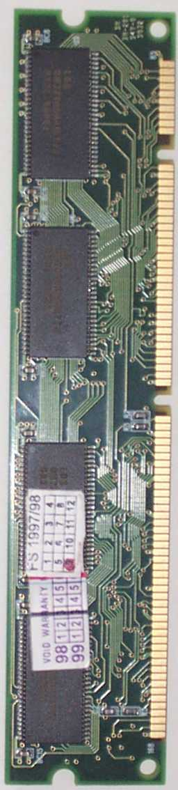 RAM module (128 kB, SDRAM), made in 1998. Picture made by myself